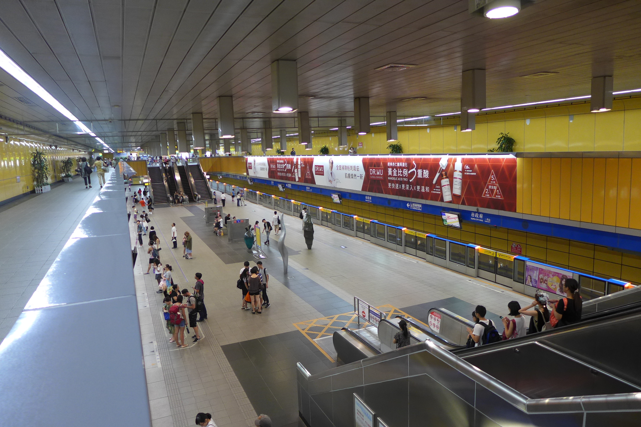 Taipei City Hall Station Platform